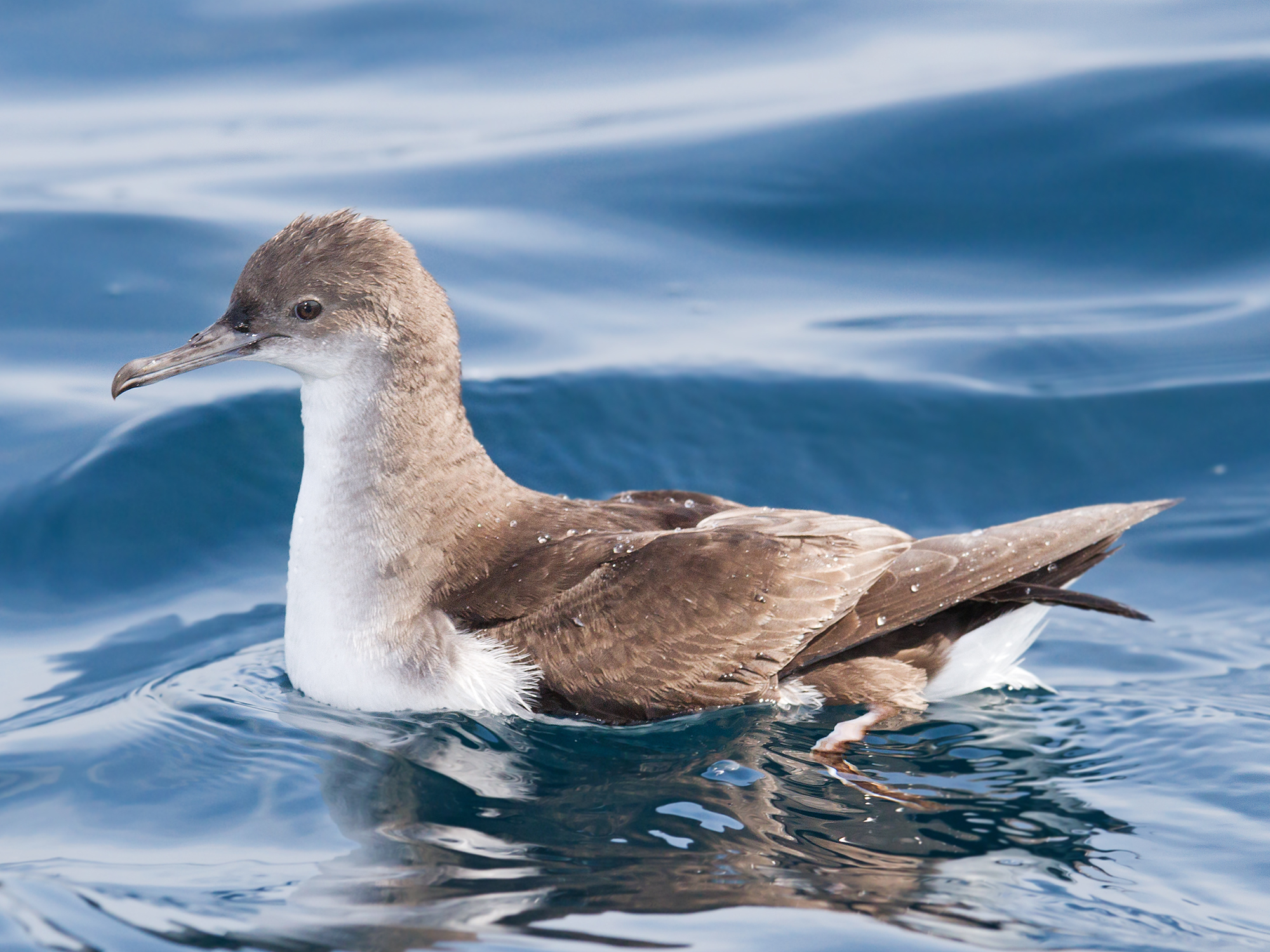 Fluttering Shearwater (Puffinus gavia), East of the Tasman Peninsula, Tasmania, Australia